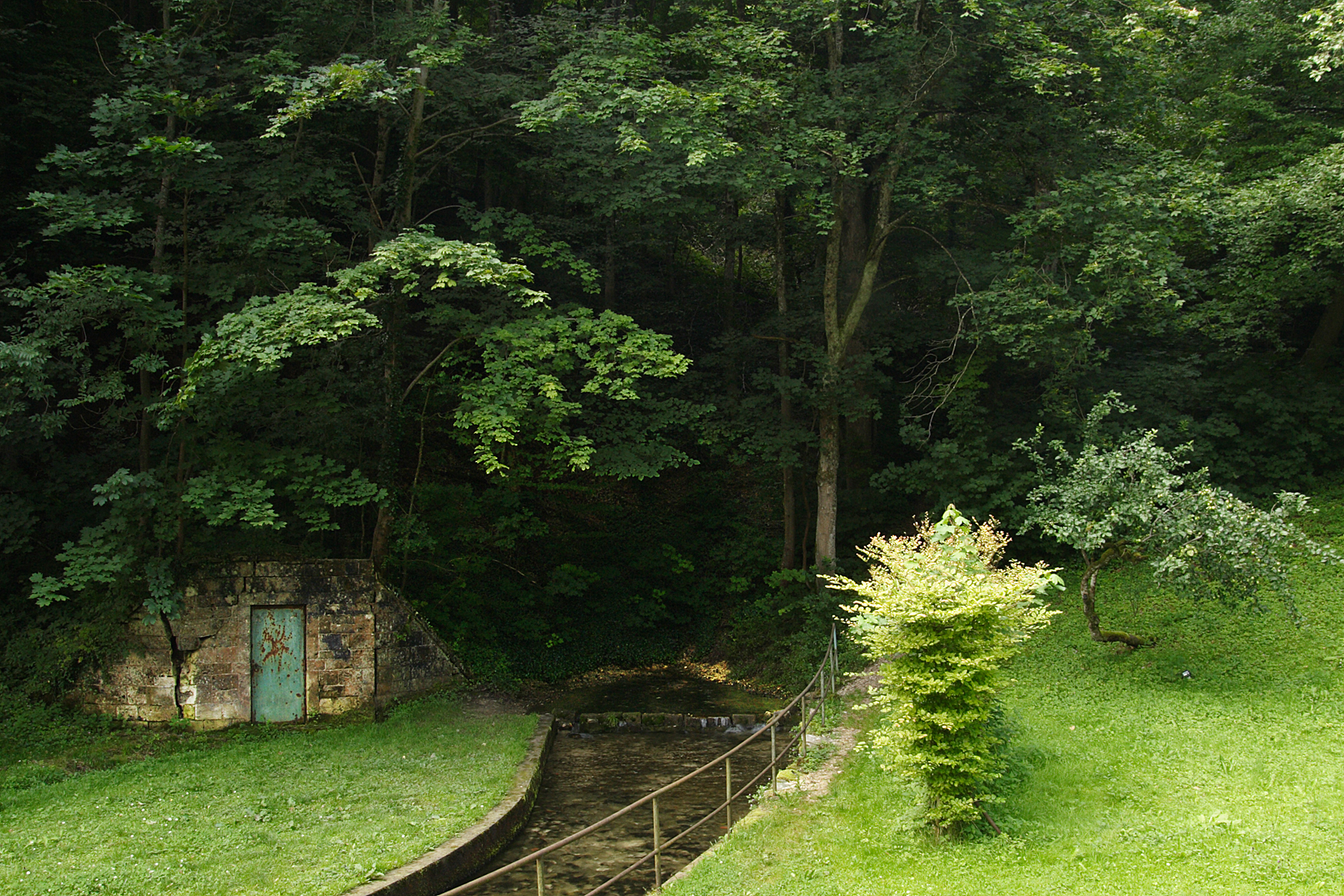 karst spring of the Black Lauter in a valley with several small karst springs and the intermittend running water cave „Goldloch“. After only 1,8 km the springs brook joins the Lenninger Lauter, which has its Karst spring White Lauter 2,5 km upwards at „Gutenberg“ (district of Lenningen), Swabian Alb. The Lenninger Lauter joins the Neckar at Wendlingen. The karst springs Black- and White Lauter, the “Donntal” and the blind valleys where the town Gutenberg is situated, are within the large Naturschutzgebiet “Oberes Lenninger Tal mit Seitentälern”. The small stone building next to the spring “Black Lauter” served to protect the spring for drinking water.